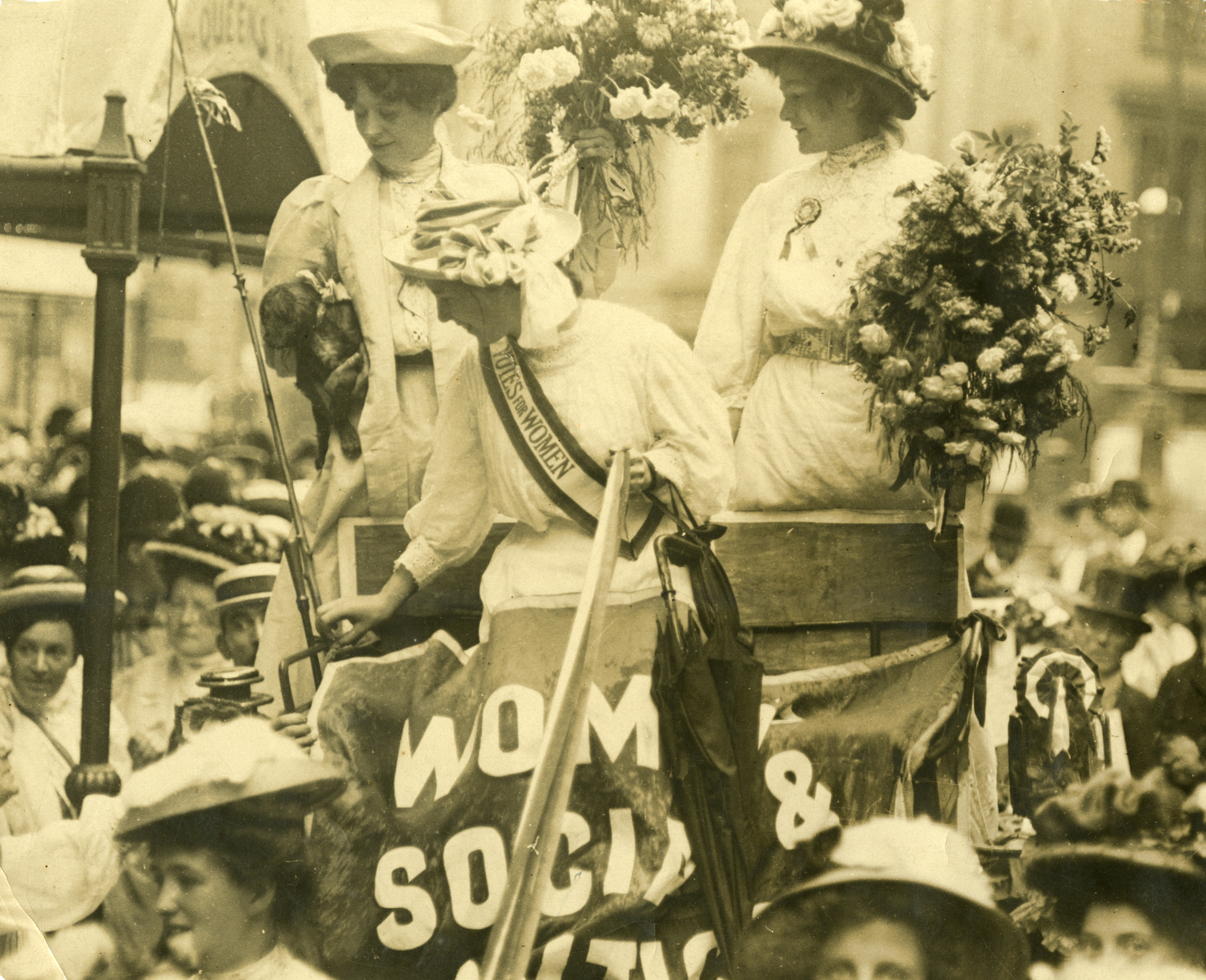 7JCC/O/02/044a Photograph, printed, paper, monochrome, Edith New and Mary Leigh each carrying a bunch of flowers, stepping down from a Women's Social & Political Union (WSPU) carriage outside the Queen's Hall; manuscript inscription on reverse 'Reception and breakfast at Queen's Hall London. To Hunger Strike Prisoners for Suffragette Movement 1908'. Part of the photograph has been cut away